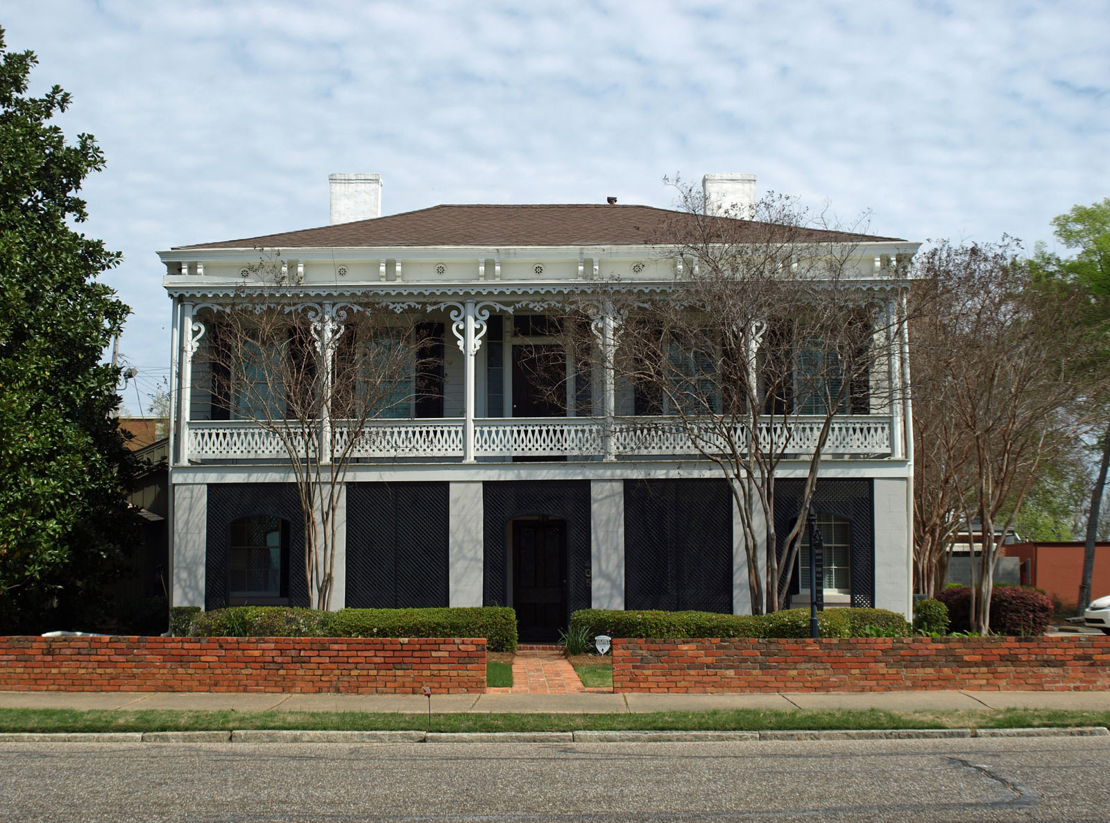 Front (west) side of the Gerald-Dowdell House in Montgomery, Alabama